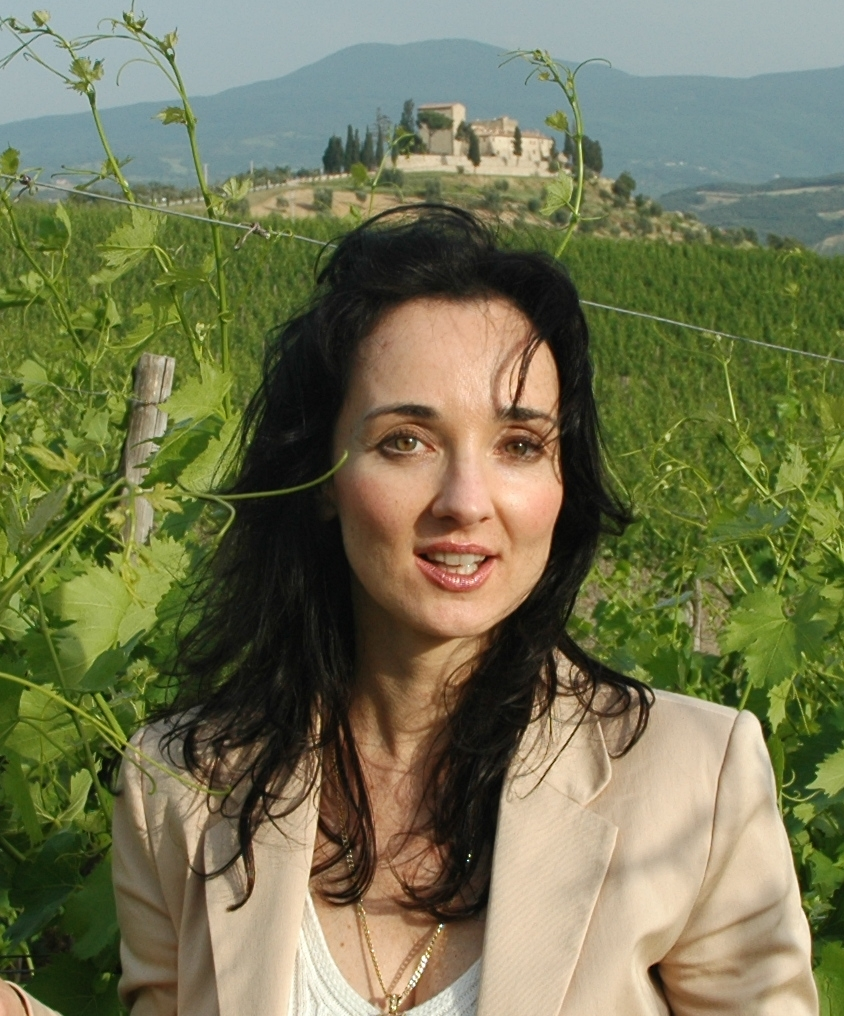 Kerin O'Keefe - wine critic and author